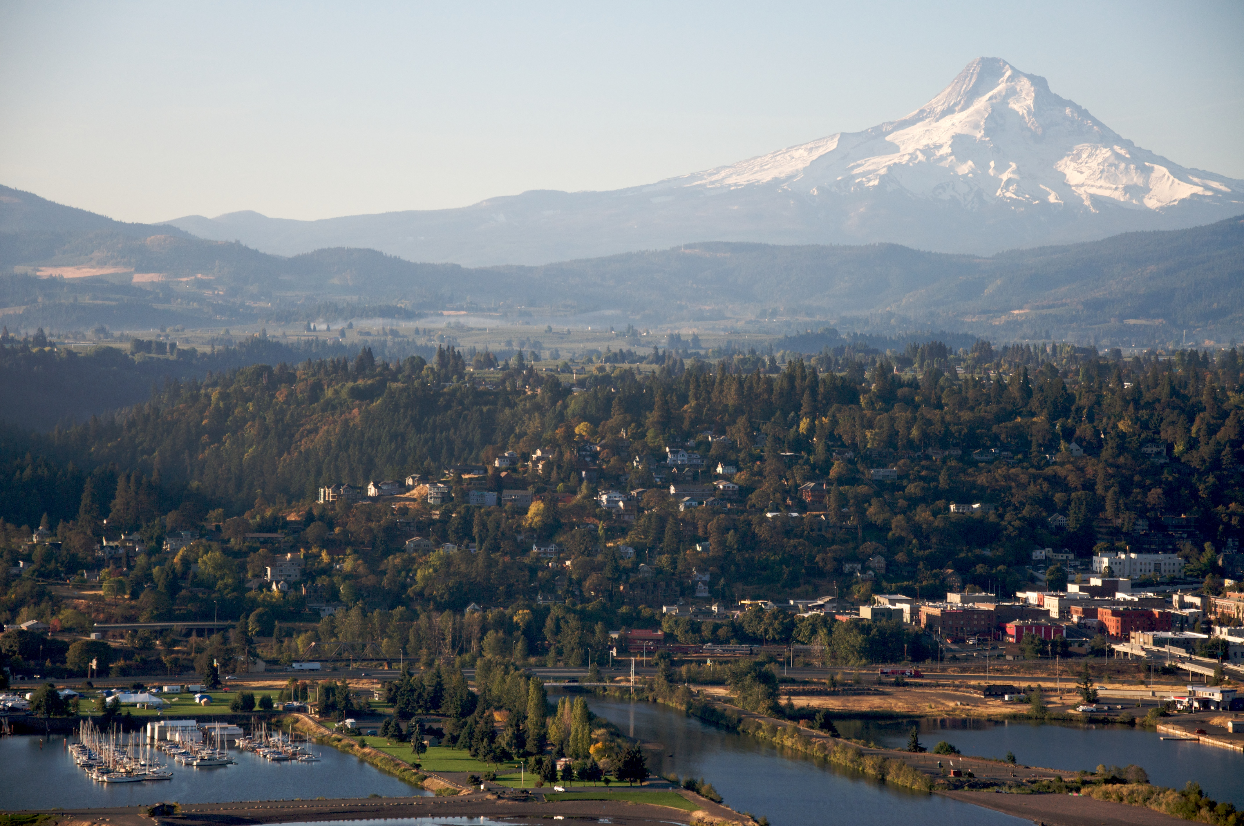 Aerial view of Hood River, Oregon, USA